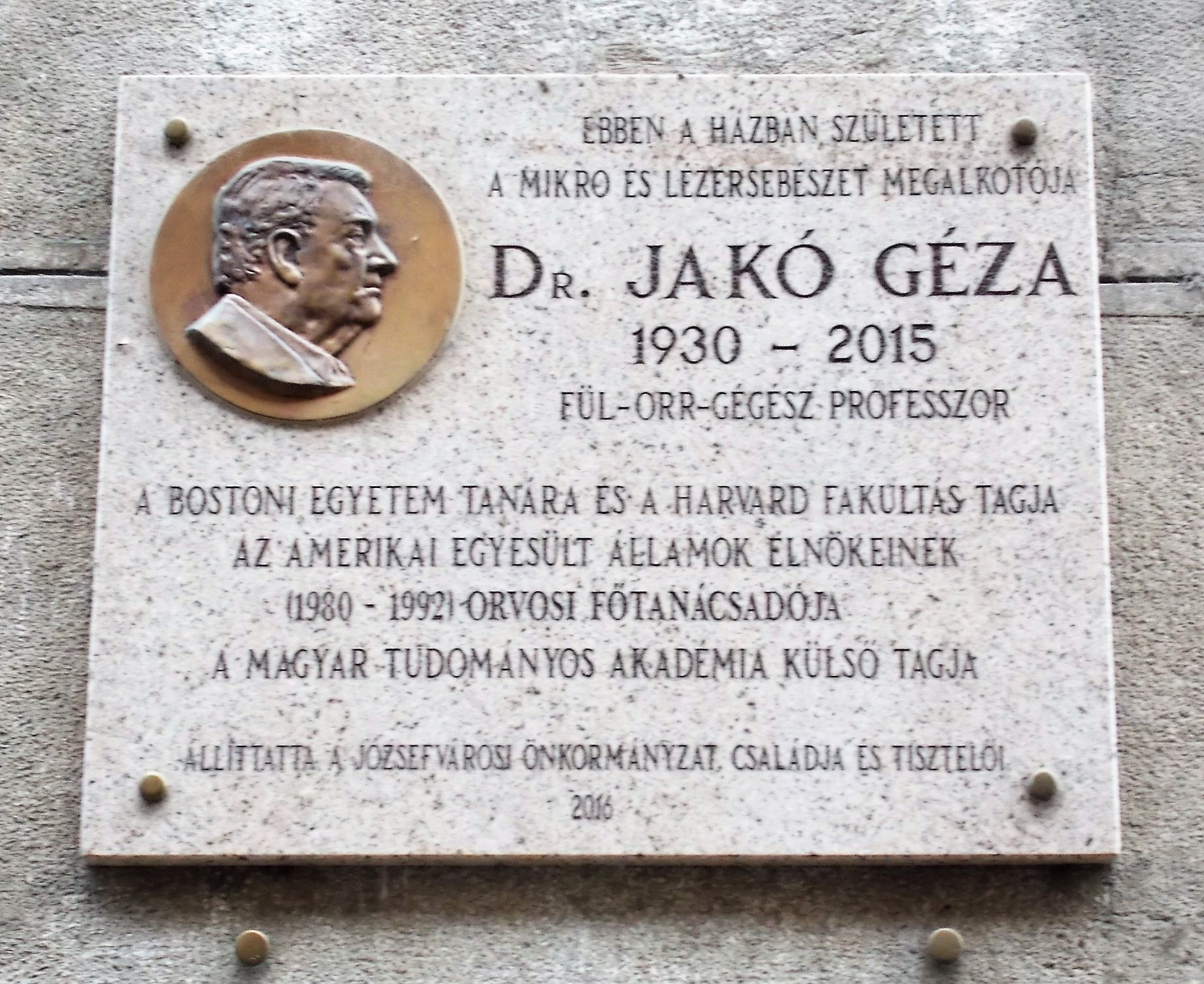 Plaque-relief on the facade of a listed dwelling building. - 12 Horánszky street, Palace neighborhood, District VIII, Budapest.